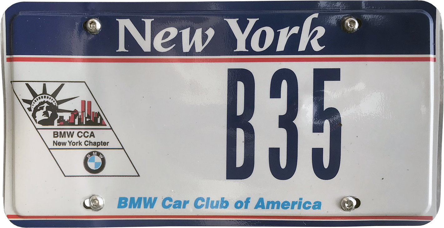 A New York license plate, BMW Car Club of America, NY Chapter.